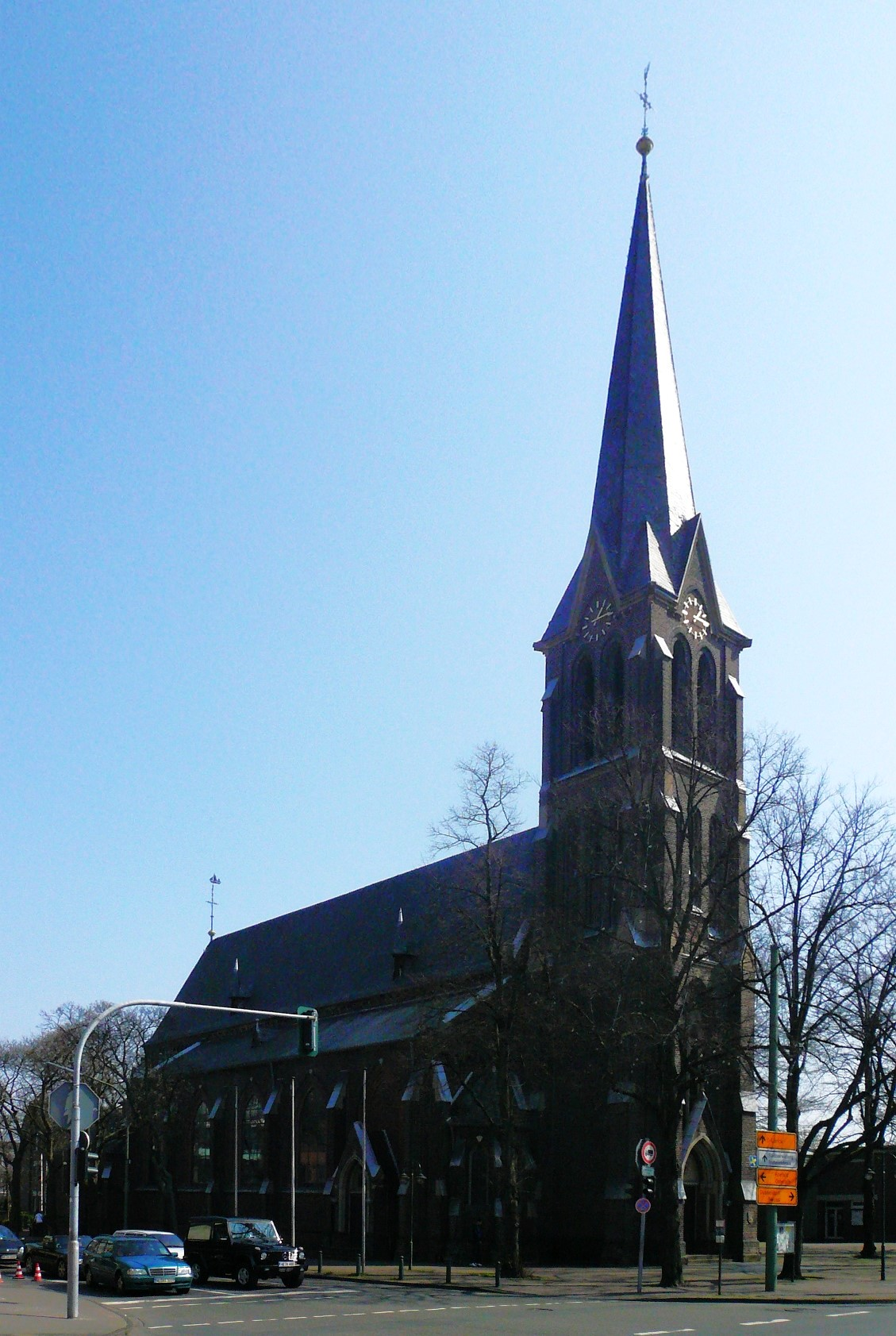 St. Maurice church (roman catholic) in Meerbusch, Germany